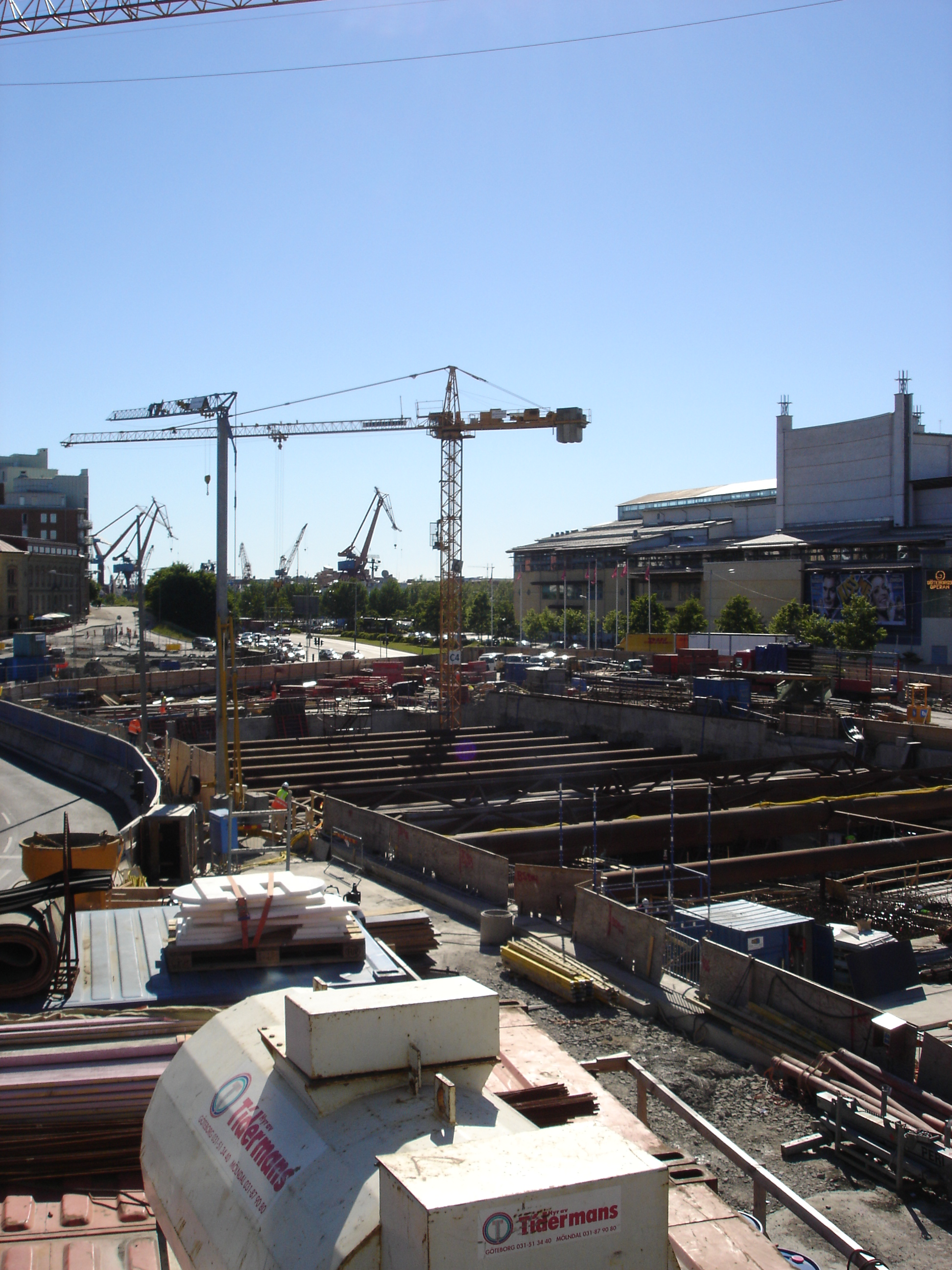 The construction site at the eastern end of the 'Götatunneln' which is being built in Gothenburg, Sweden. The tunnel is scheduled for completion during 2006. The building in the rightmost background is the opera house. This area is usually referred to as 'Lilla Bommen'.